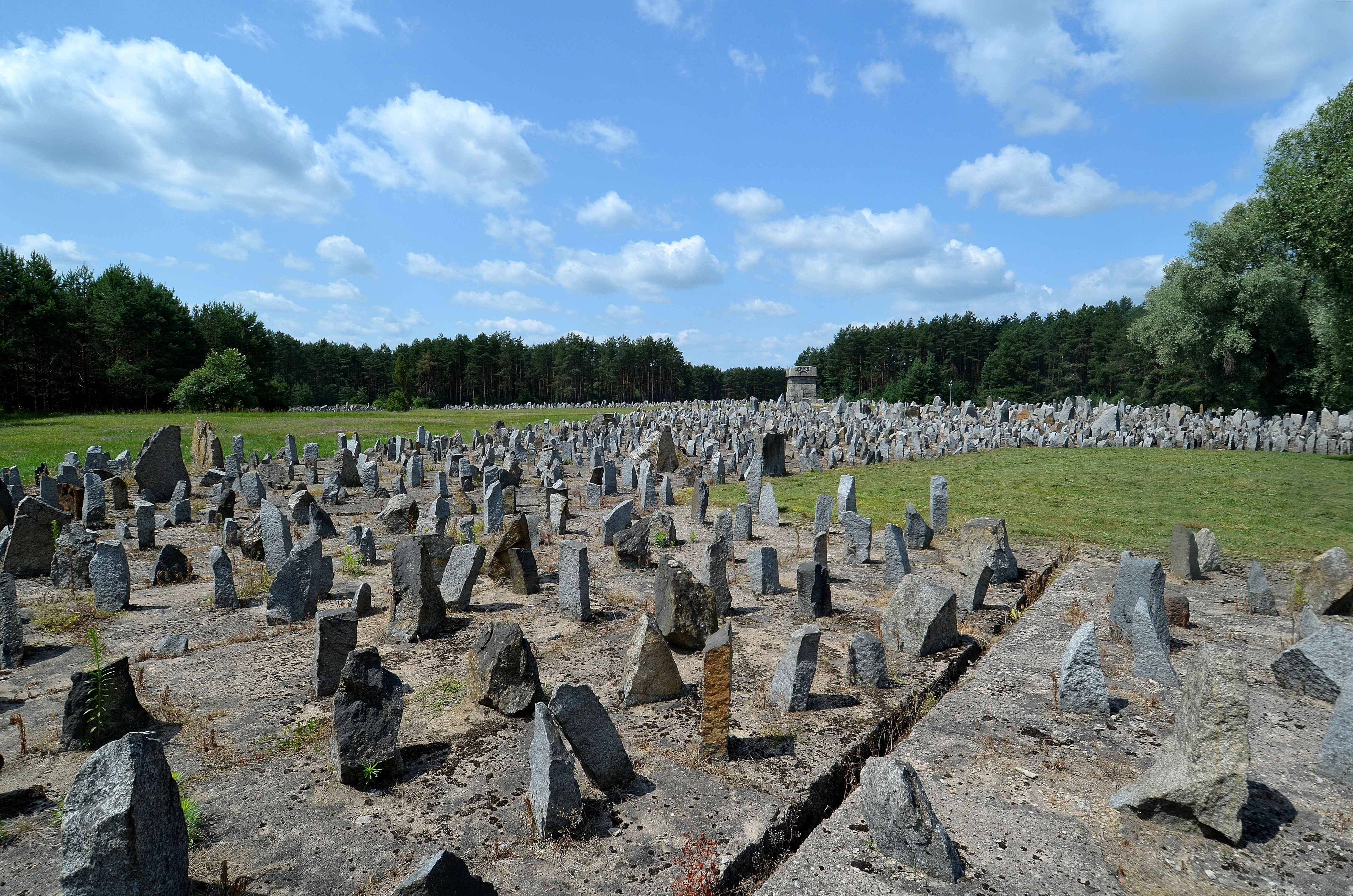 Treblinka II memorial